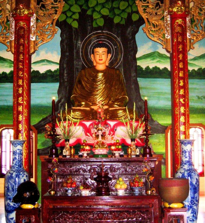 Vietnamese chancel, thien.